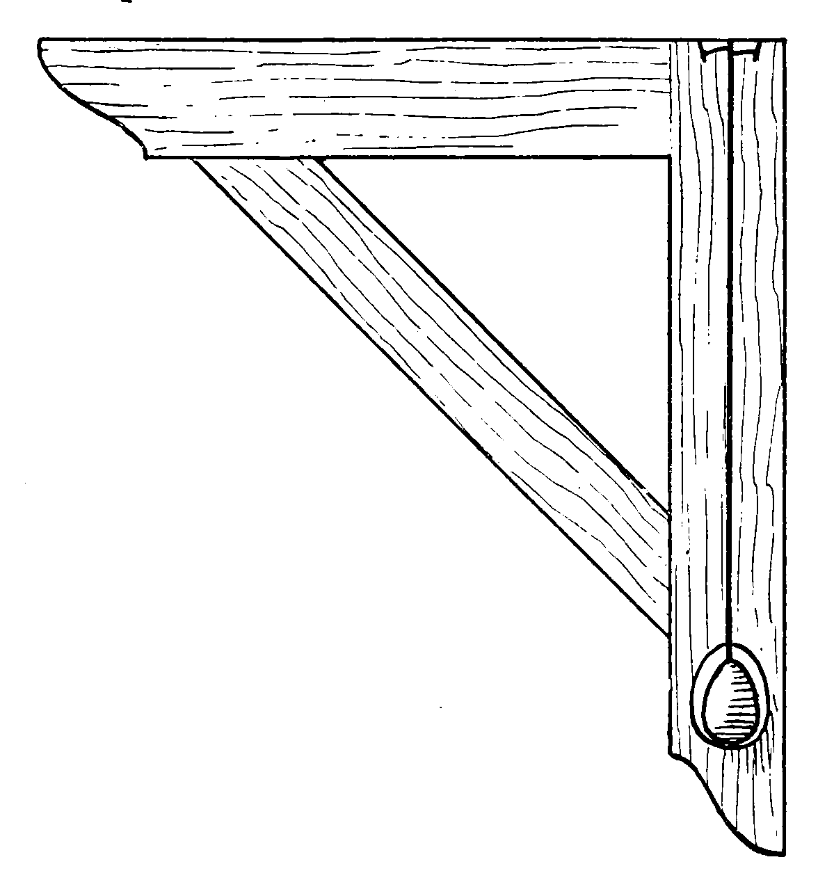 →This file has been extracted from another file: Cassells' Carpentry and Joinery.djvu